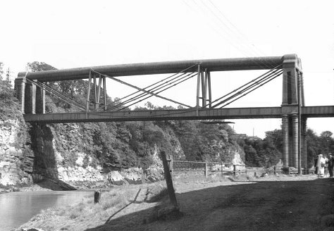 Photograph of Brunel's Chepstow Railway Bridge; This photograph was taken by John Morris who is the owner of its copyright. Copyright (c) 2006 John Morris.